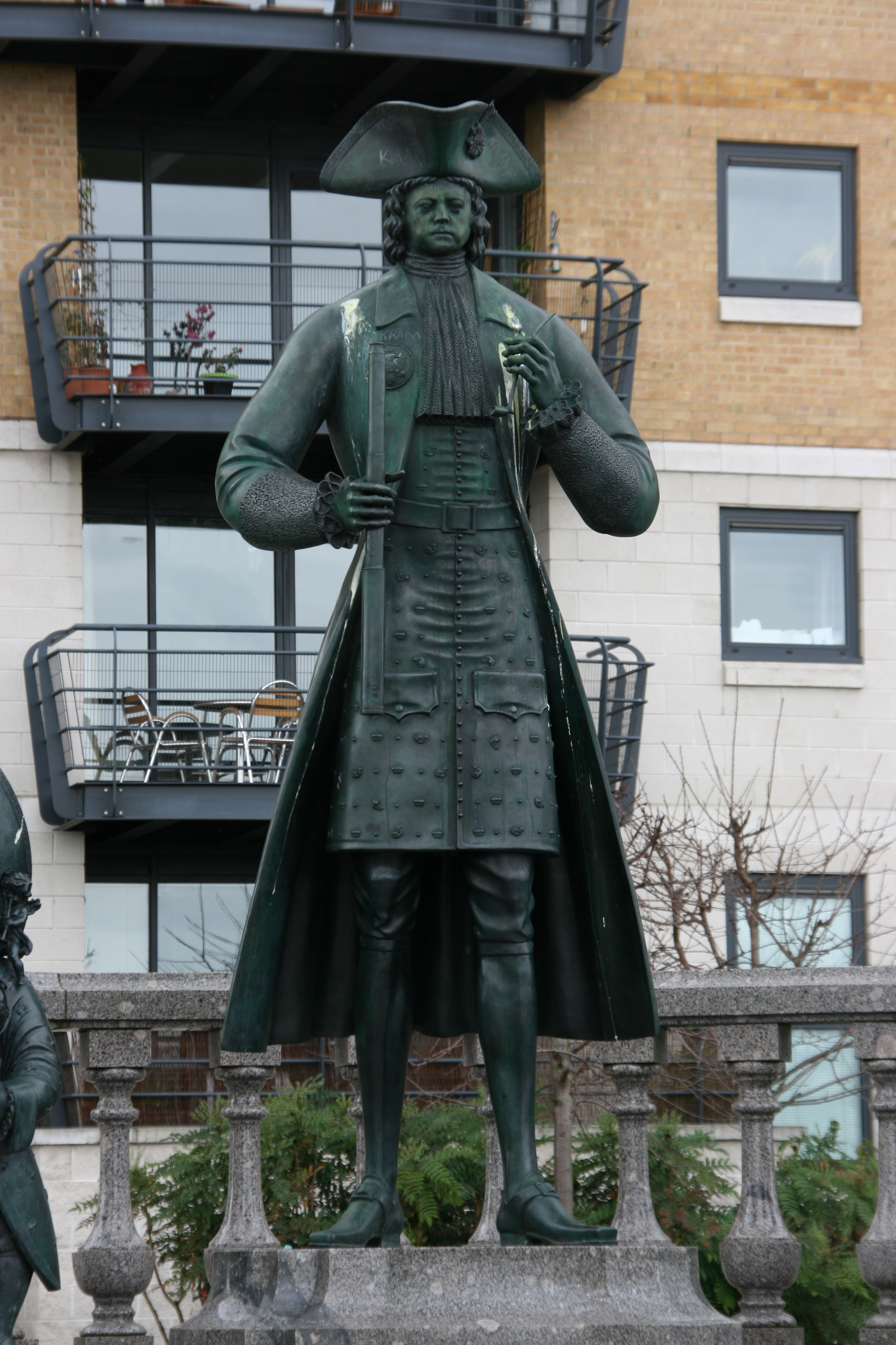 Statue of Peter the Great at Deptford Creek. The statue was presented by the people of Russia to commemorate the time Peter the Great spent as a guest at the nearby Sayes Court. Peter was visiting to study English ship building.